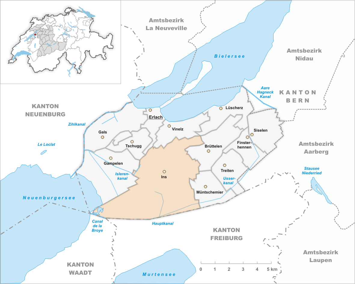 Municipality Ins